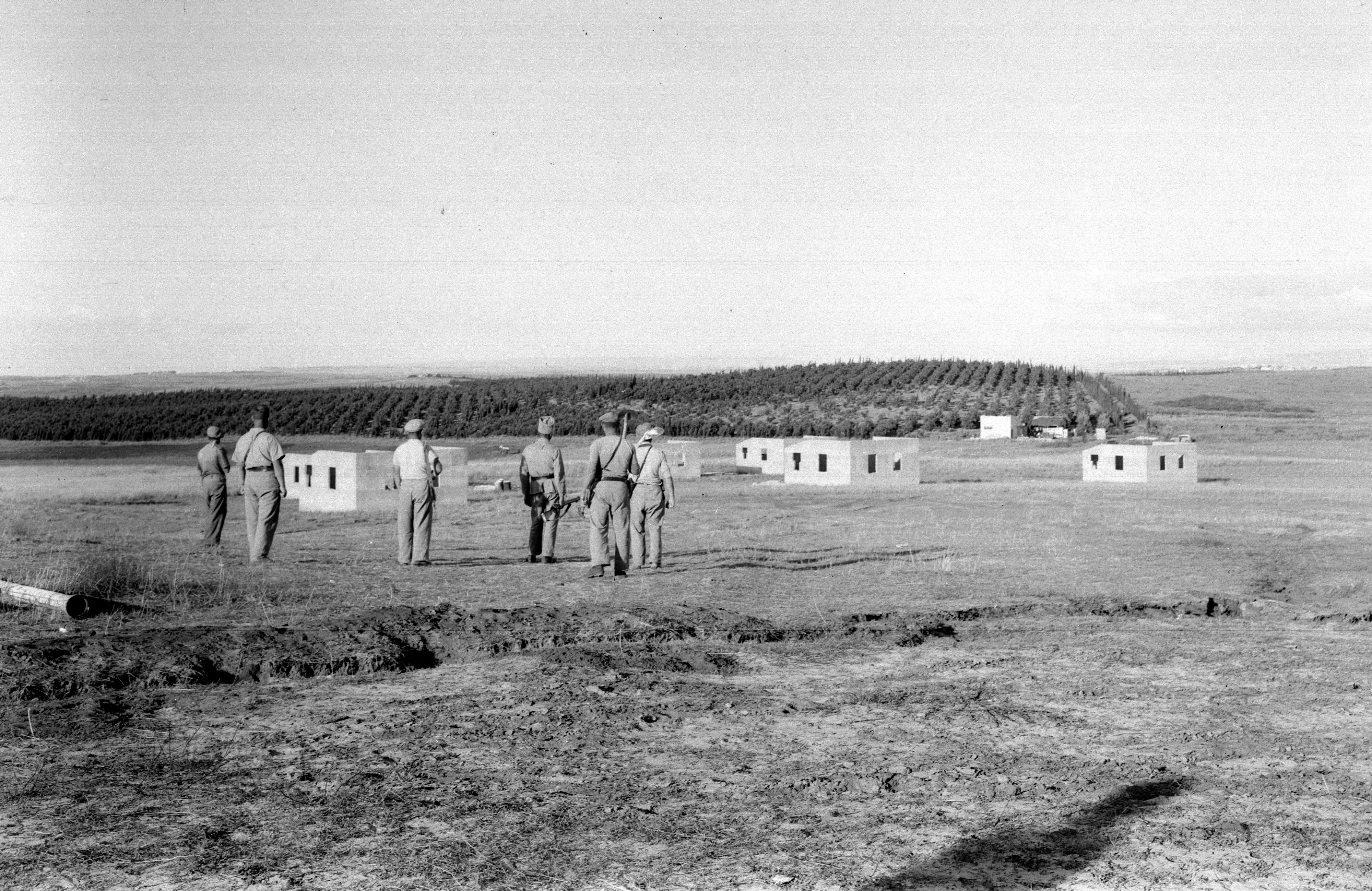 THE FIRST UNFINISHED HOUSES OF PARDESIA NEAR KFAR YONA. מושב פרדסיה ליד כפר יונה.